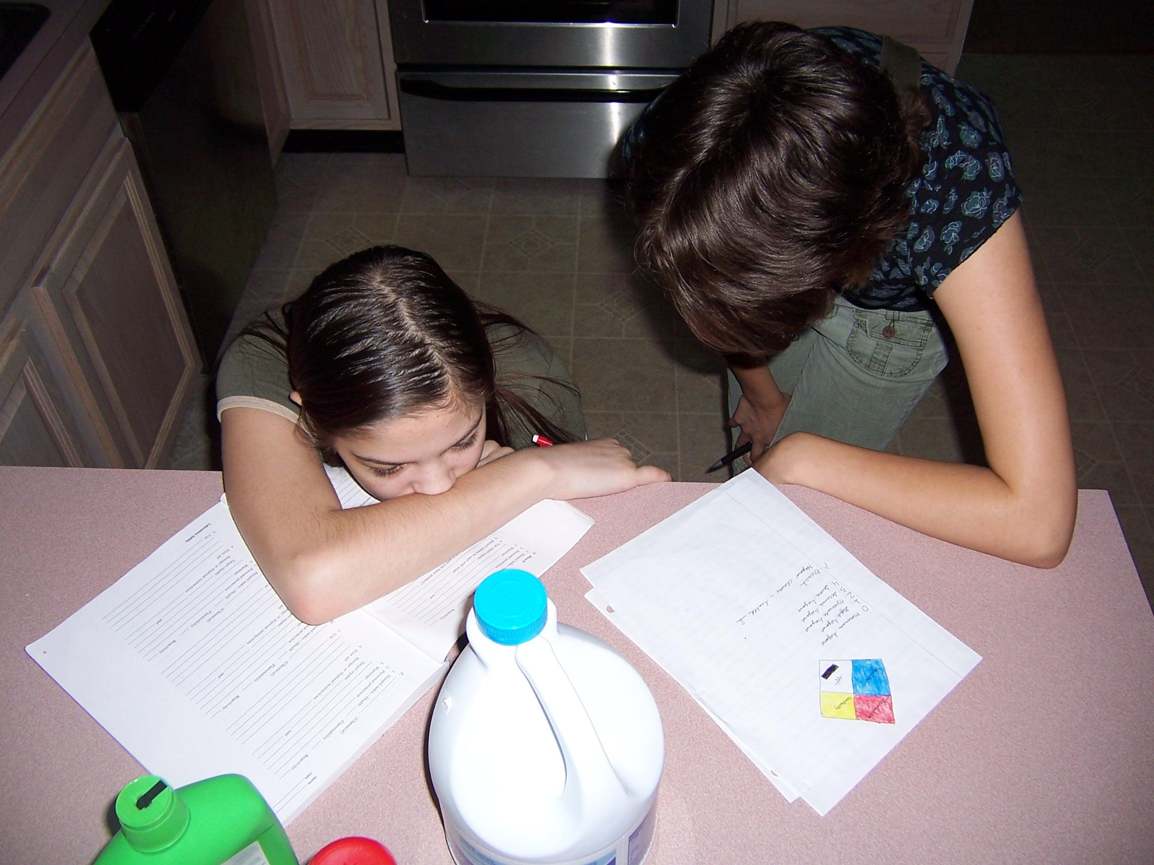 A mother and her homeschooled daughter, studying in the kitchen about household chemicals and the hazard warning labels(flammability, reactivity, etc )[1].